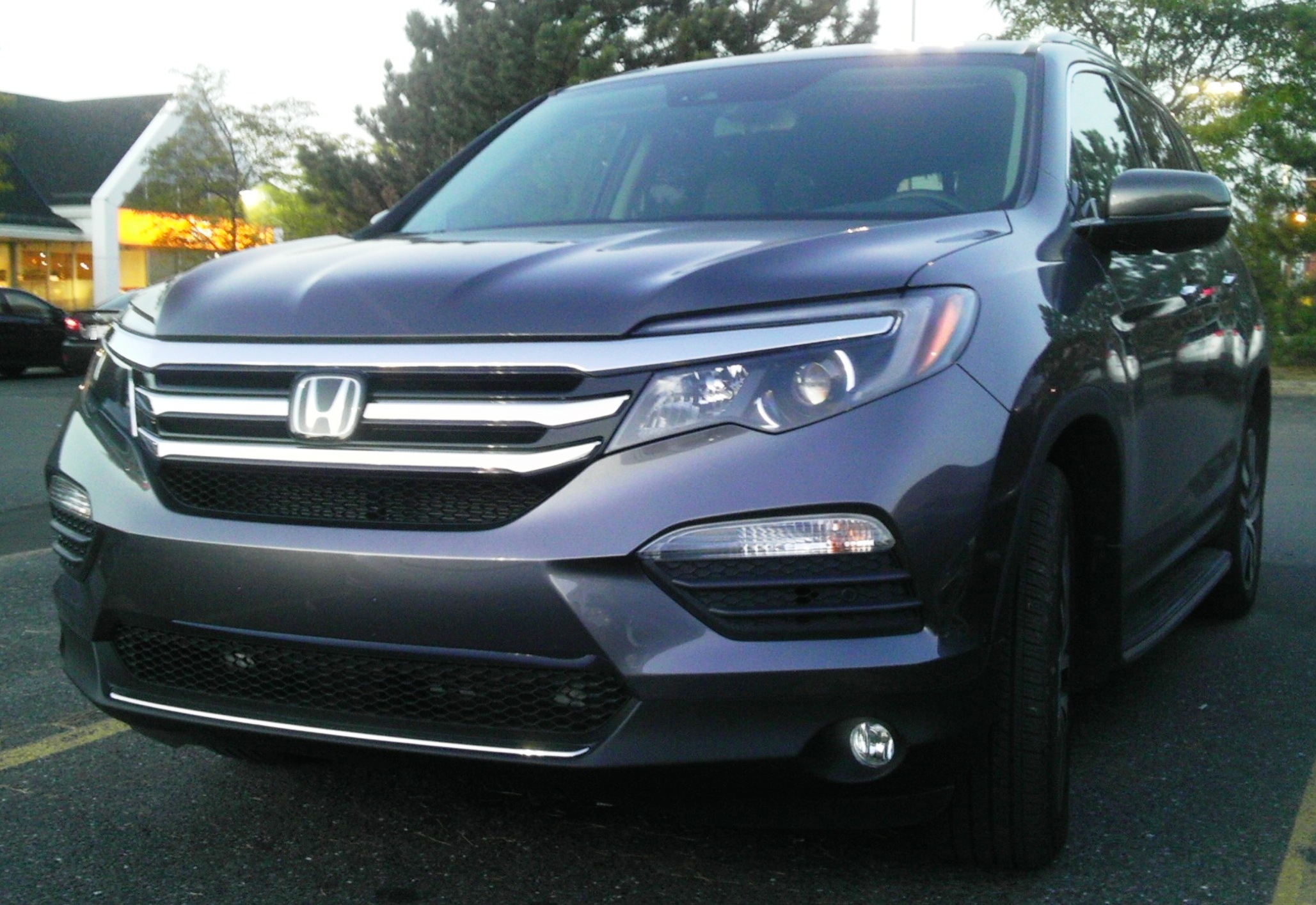 2016 Honda Pilot photographed in Montreal, Quebec, Canada.